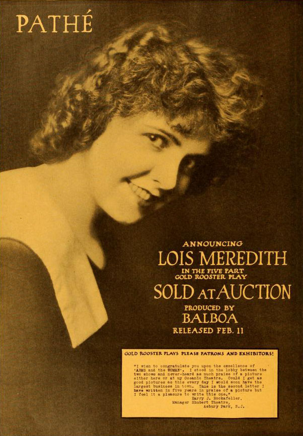 Template:Advertisement in Moving Picture World for the American film Sold at Auction (1917).